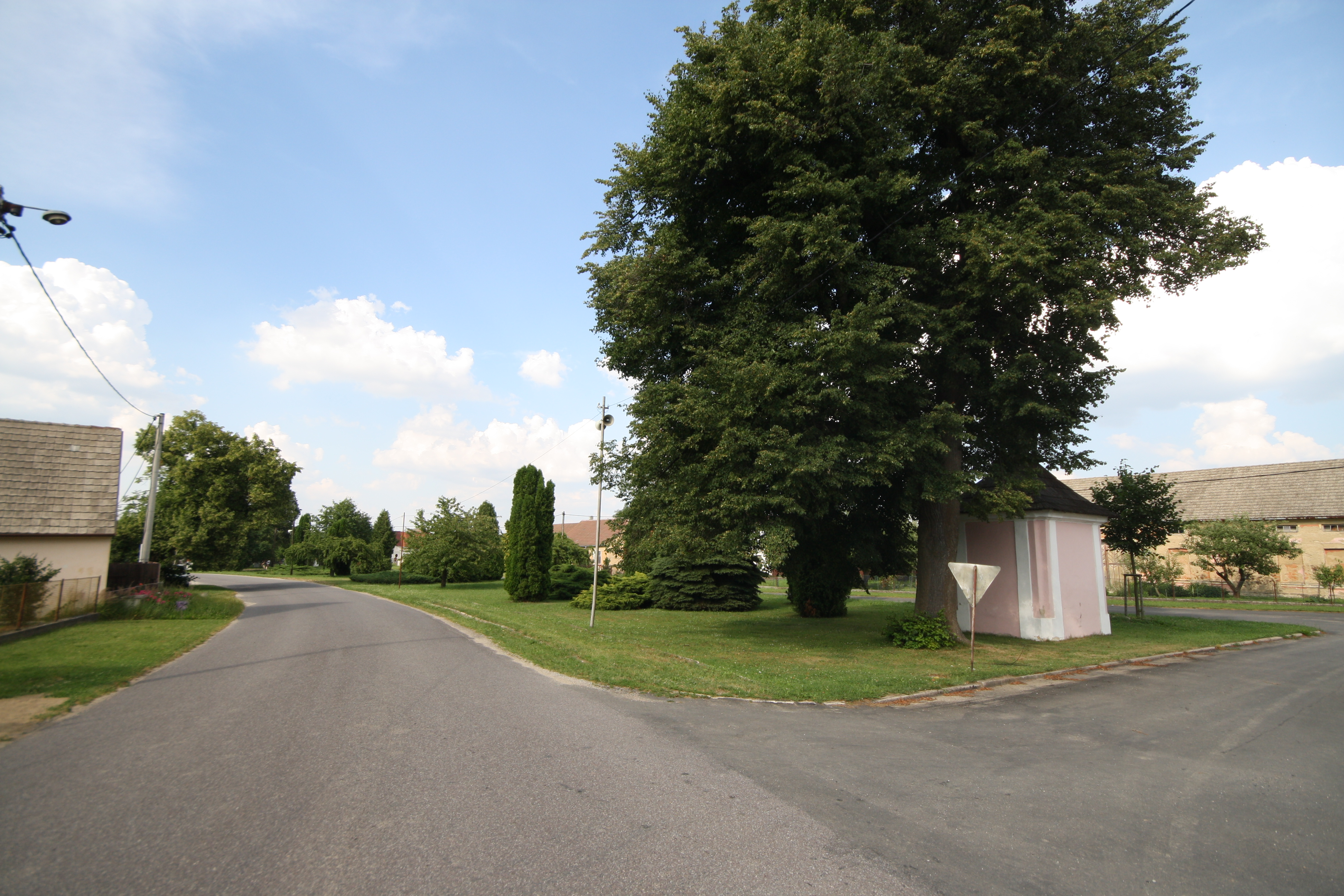 Center of Lesná, Třebíč District.